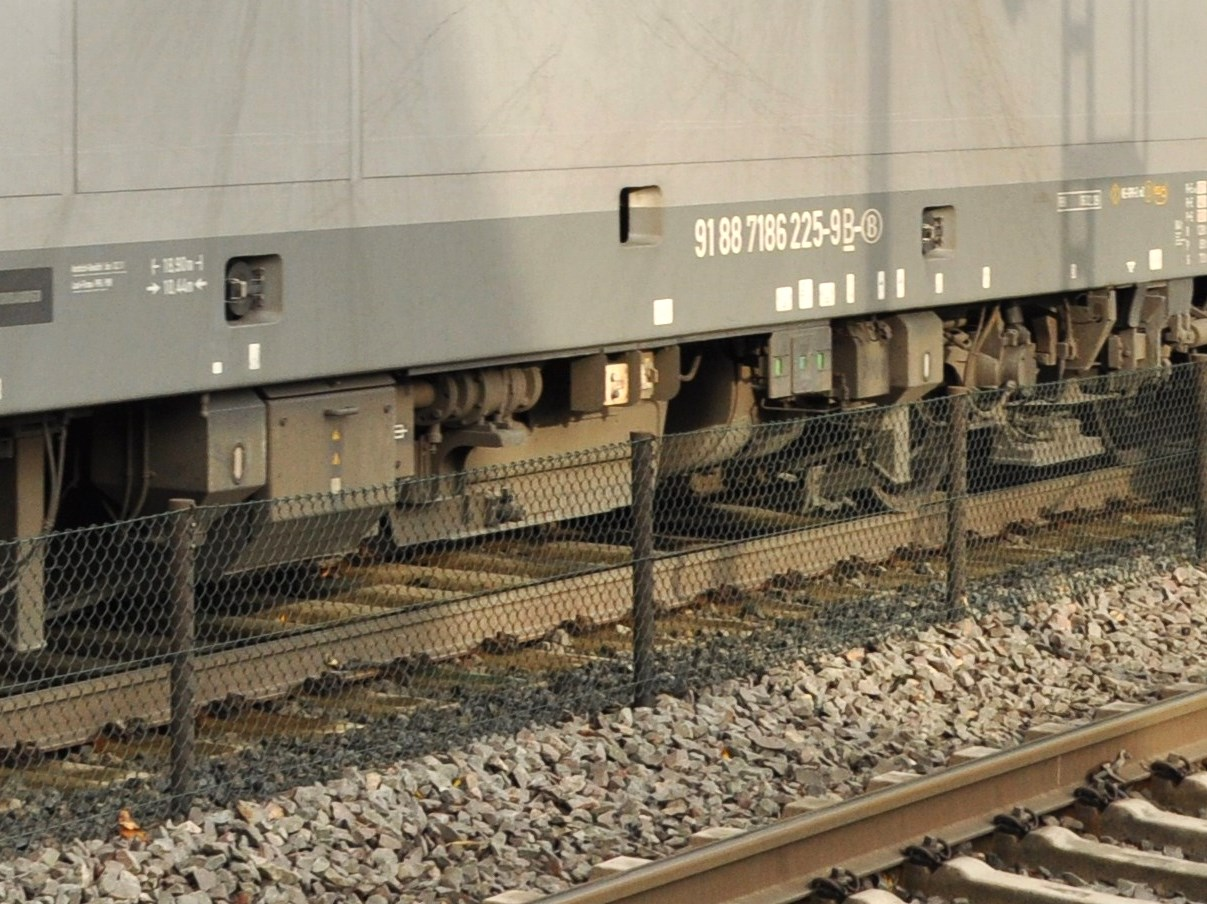 Fence at Eilendorf station intending to avoid that passengers walk over the rails instead of using the bridge.